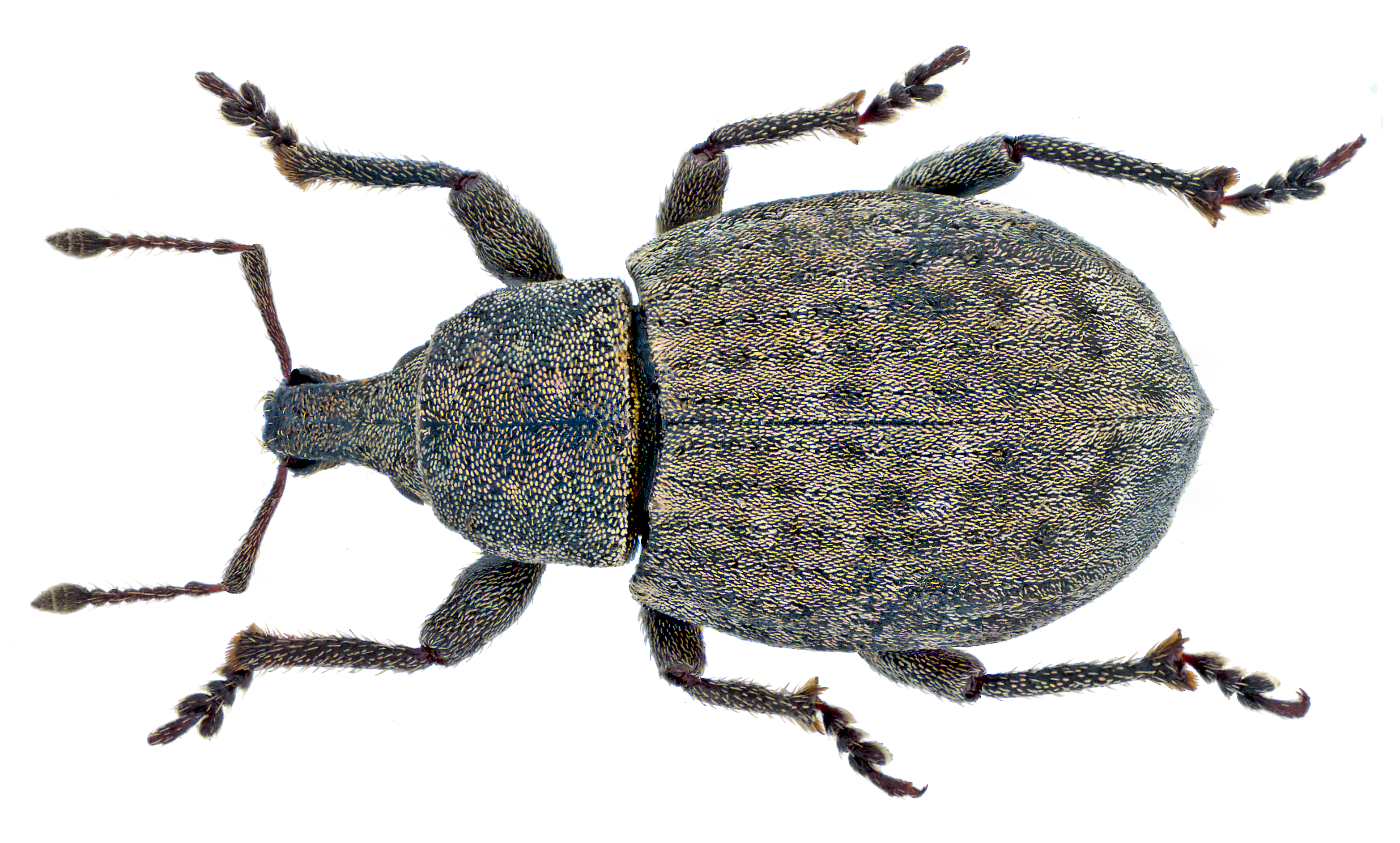 Family: Curculionidae Size: 6,3 mm (5,0-7,5 mm) Distribution: Europe Ecology: polyphagous Location: England, Oxford District ex. J.J.Walker bequest 1939 Coll. Oxford University Museum of Natural History Photo: U.Schmidt, 2014